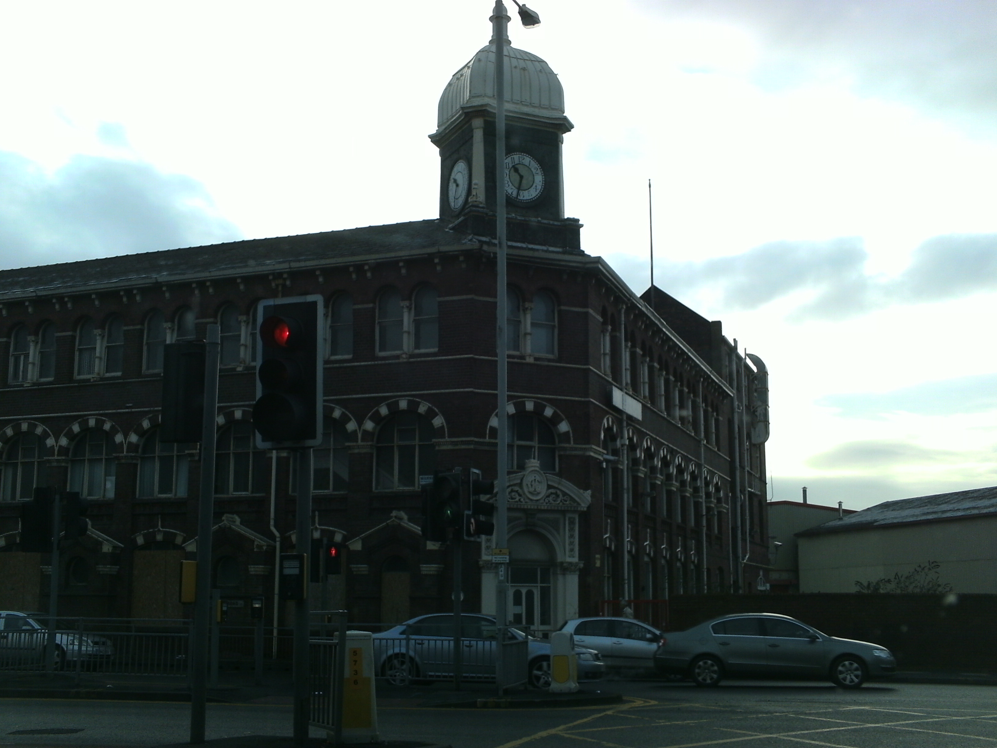 Hunslet Road from Black Bull Street